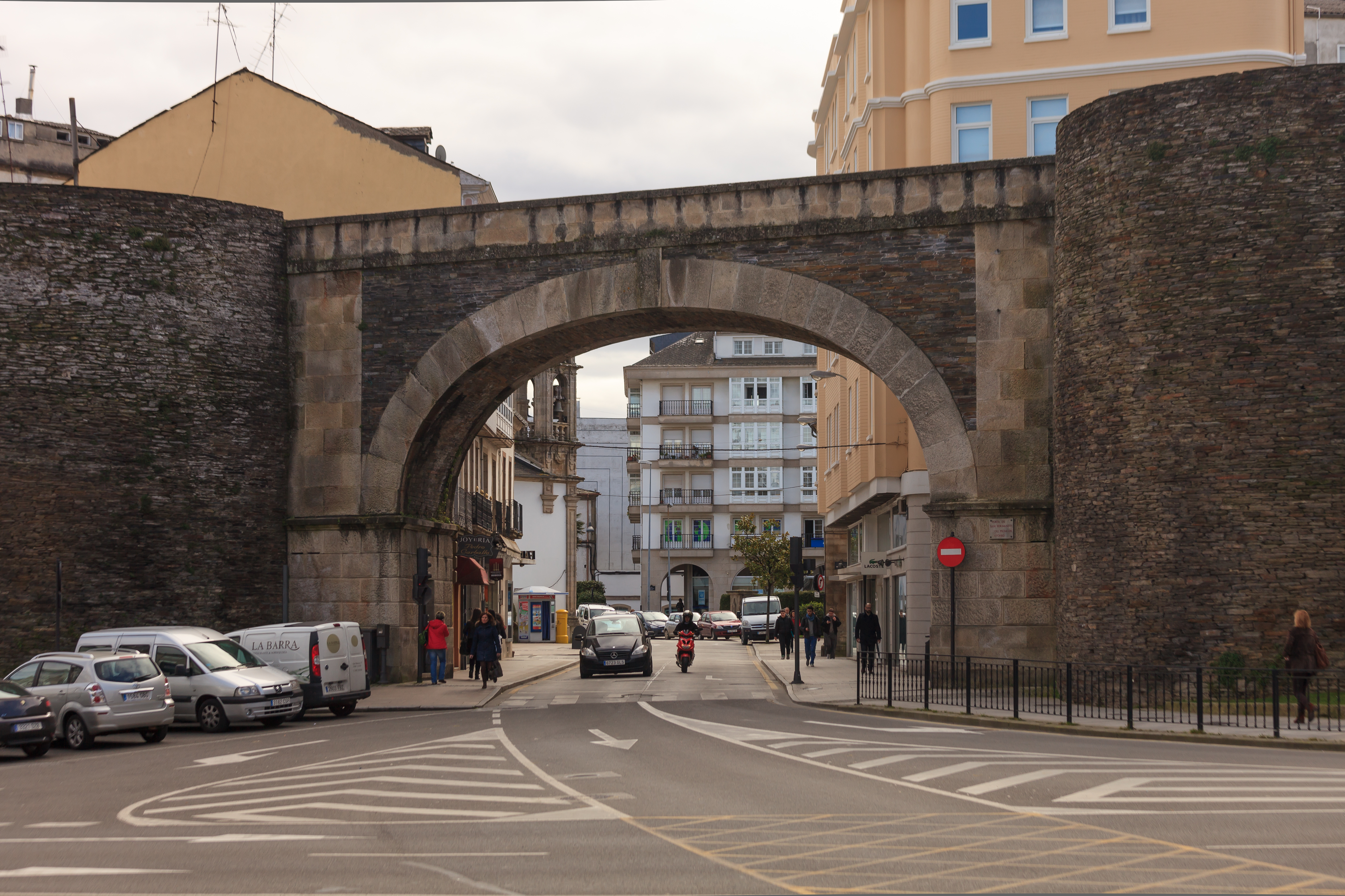 Door of Saint Ferdinand, Roman walls of Lugo, Galicia (Spain)